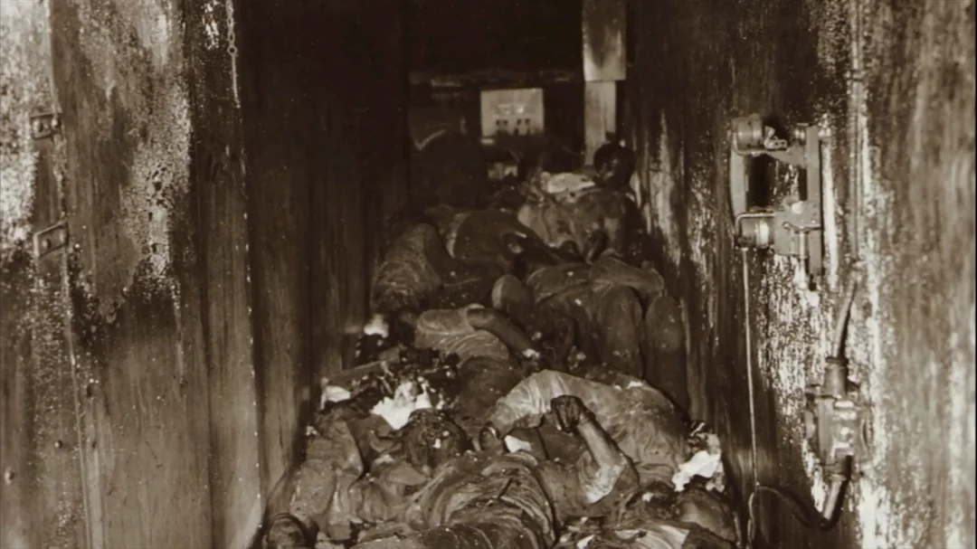 Caption: Remains of USS Bunker Hill pilots who tried to escape flames caused by kamikaze attack